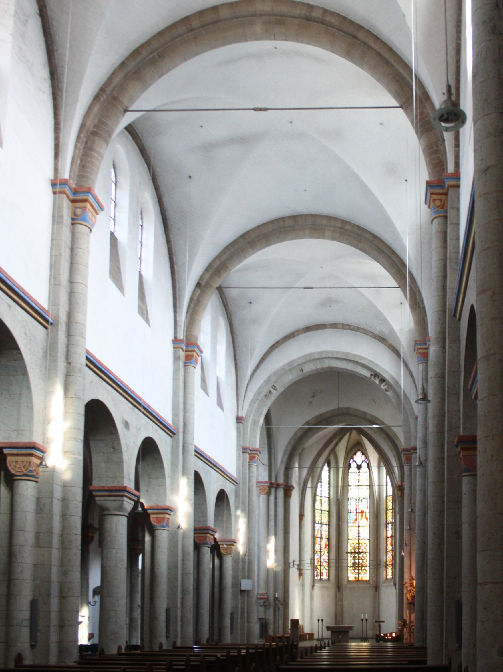 Knechtsteden abbey, Germany. Nave of the abbey church towards East.